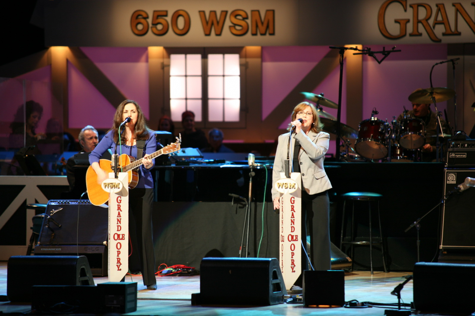 The Whites